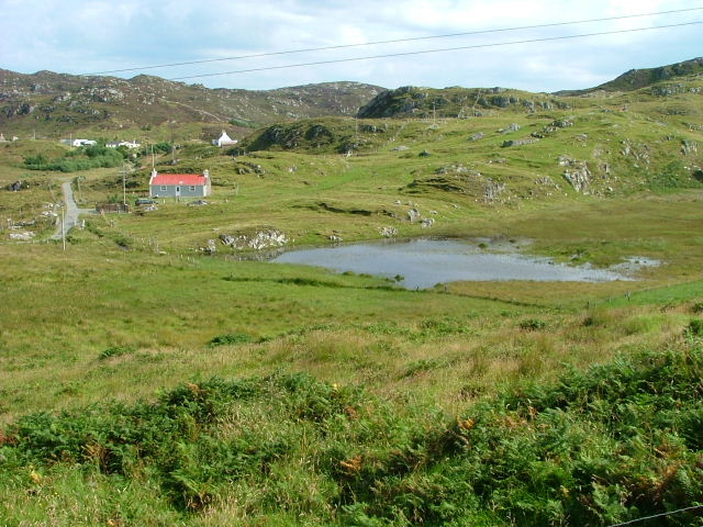 Lochan and houses near Calbost